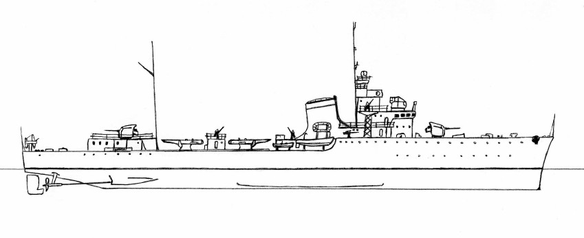 Italian destroyer Maestrale, 1934